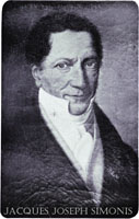 Jacques Joseph Simonis (*1717; † 1789), Belgium billiards fabric manufacturer.